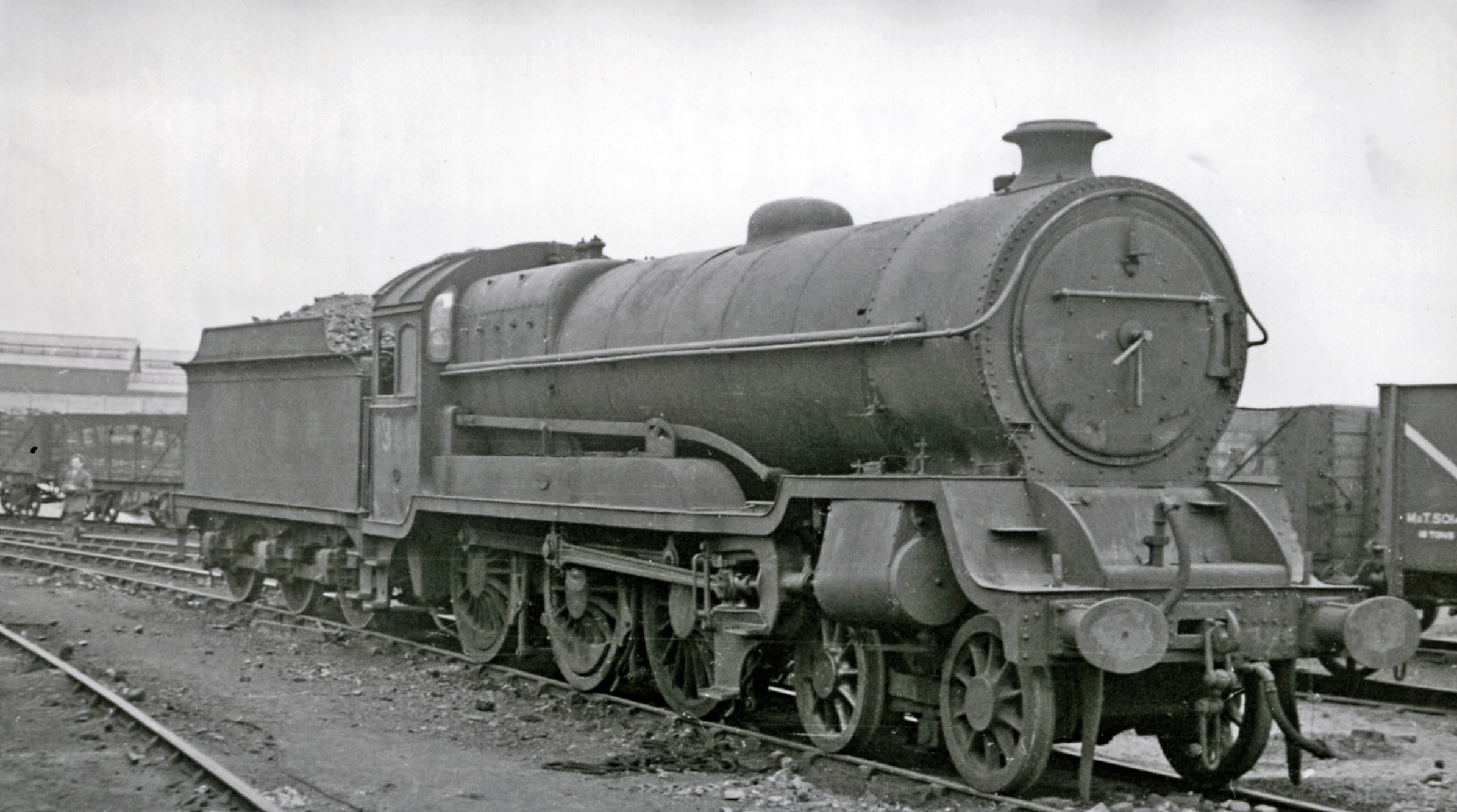 Ex-Great Central Class B7 4-6-0 at Darnall Locomotive Depot. A forlorn survivor of the very competent Robinson Class 9Q 4-6-0s, which were worn out struggling over the Woodhead Line in World War Two. No. 1386, still in very dirty LNER livery in 1949, was former LNER No. 5034, built as recently as 8/22 and was about to be withdrawn in 6/49. (See also SK3887 : Darnall Locomotive Depot).